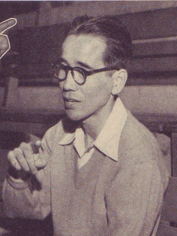 Tetsuzo Shirai (Japanese Theatre director. Takarazuka Revue). taken in 1955.